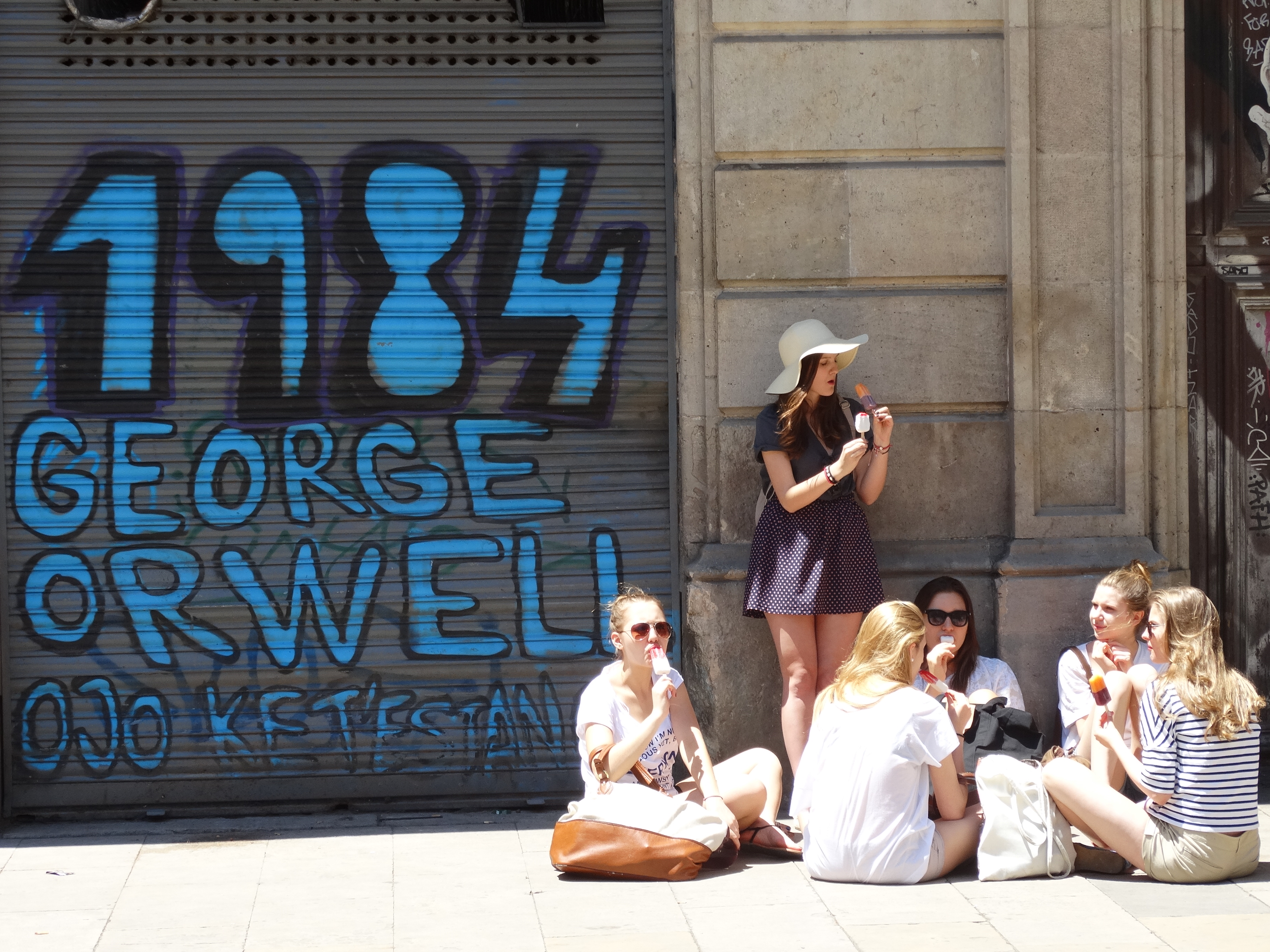 1984 George Orwell Graffito - Placa de George Orwell - Barrio Gotico - Barcelona - Spain